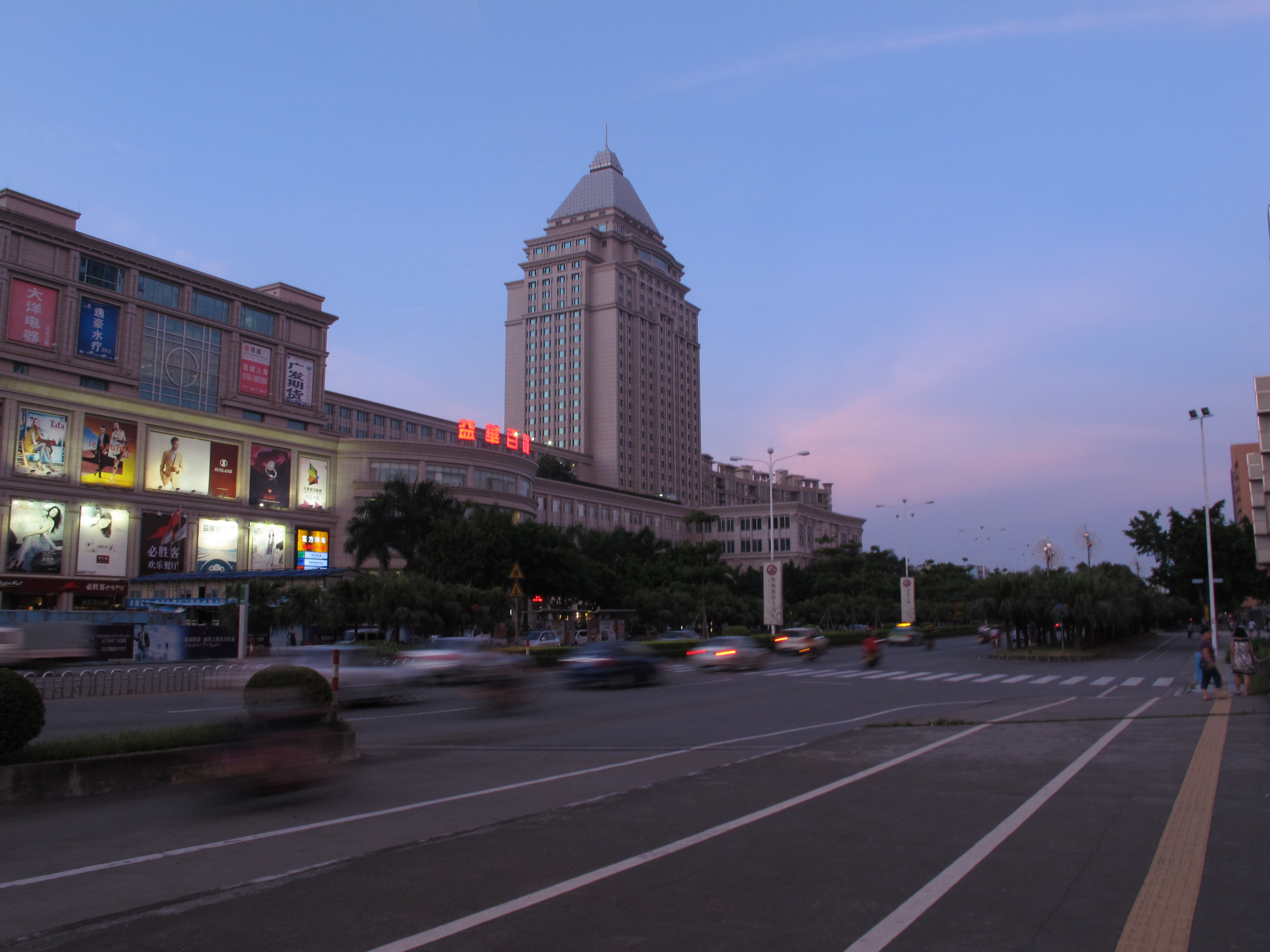 Yingbin Road in Jiangmen, China.